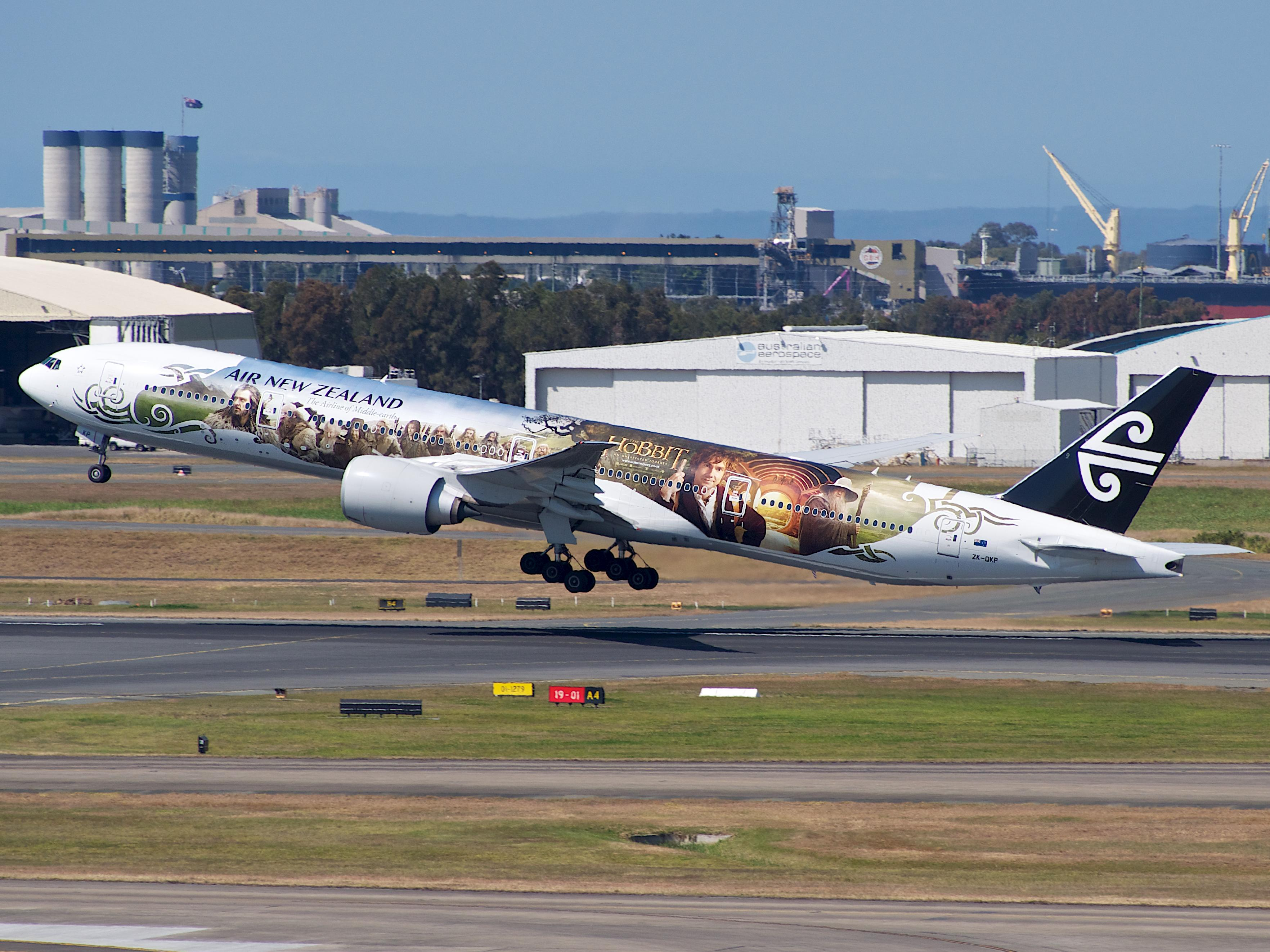 ZK-OKP | 777-319 ER | Air New Zealand | Hobbit | BNE